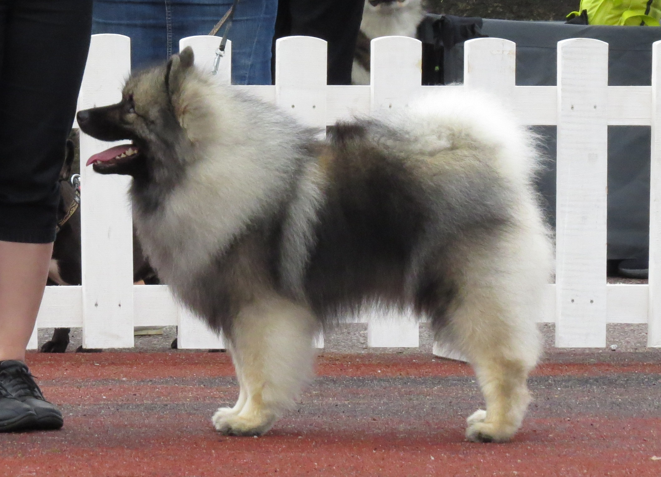 Tallinn, Estonia, duo CACIB 2013, August 17-18